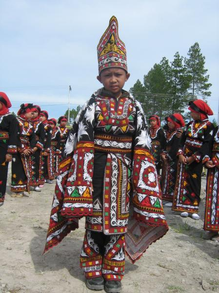 Young boy in Guel dance, Gayo country, Aceh province, Sumatra, Indonesia